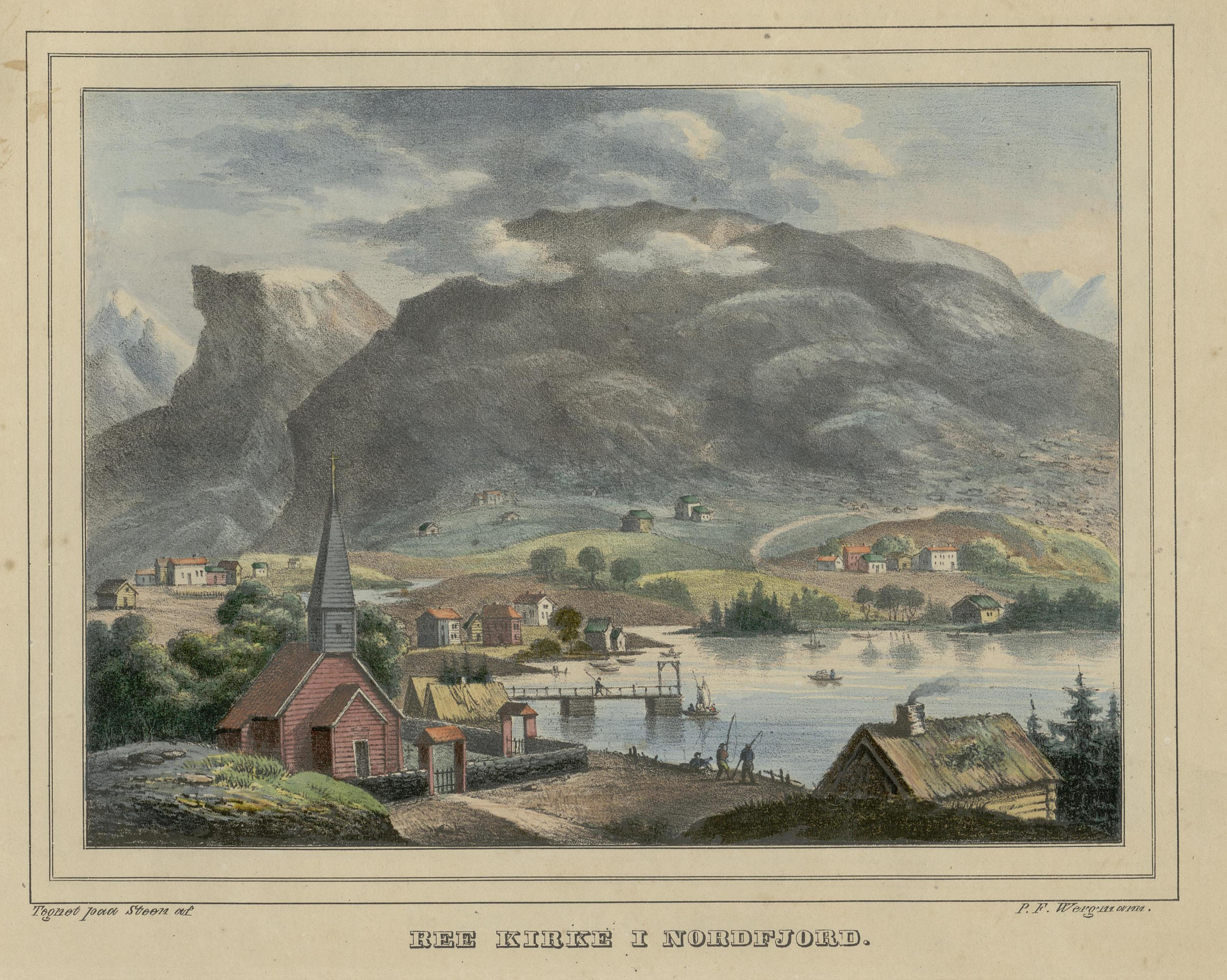 Illustration from the book "Norsk Prospect-Samling" by Wergmann, P.F. and published by P.F. Wergmann (no, 1833-1836)